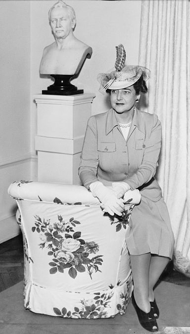 American interior designer Dorothy Draper (1889-1969)